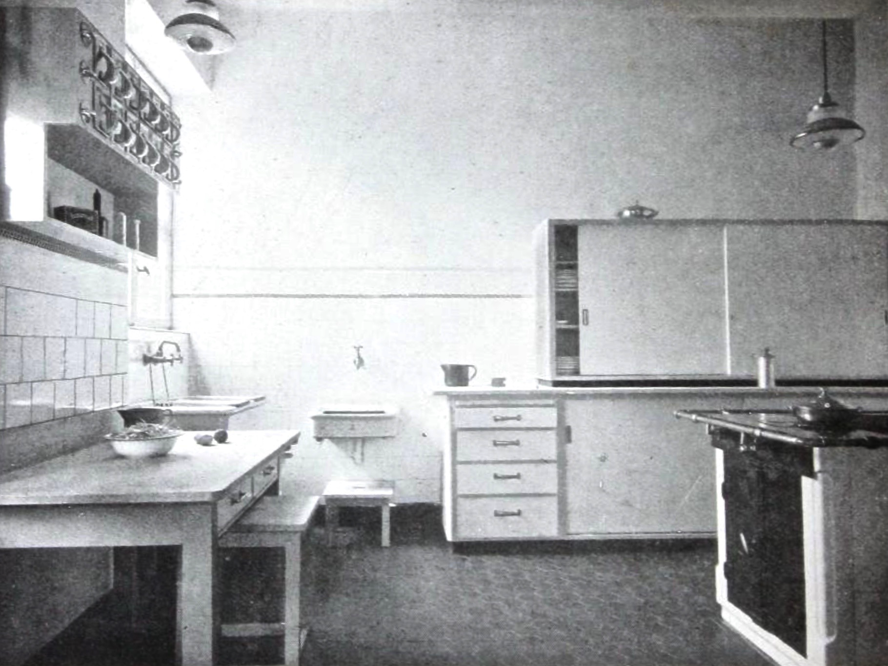 Kitchen furniture designed by Bauhaus designer Erich Dieckmann (1896–1944) and Karl Keller (1903–1979) in 1928 for Otto Bamberger (1885–1933), Sonnenhaus, Lichtenfels, Upper Franconia, Bavaria, Germany. Translated original text: Furniture by Staatliche Bauhochschule Weimar, design: Erich Dieckmann and Karl Keller. Furnishings of a large kitchen, execution: two-color painted in gray and enamel white. Base red linoleum, fittings nickel-plated. Boards of solid maple.